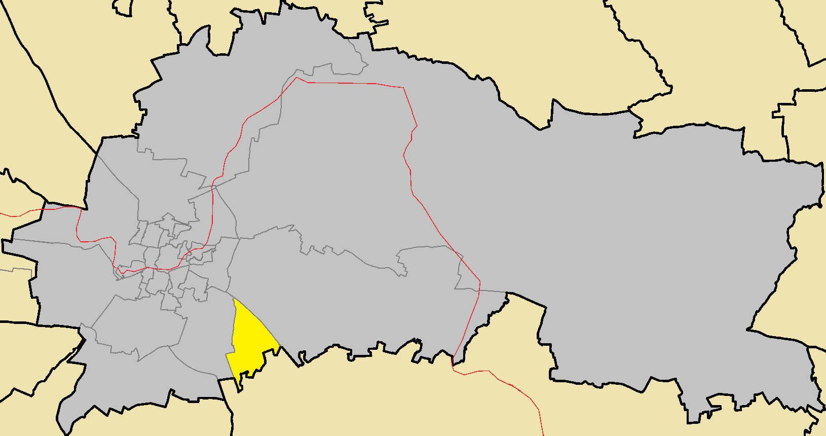 Agioi Konstantinos kai Eleni in Nicosia Municipality.